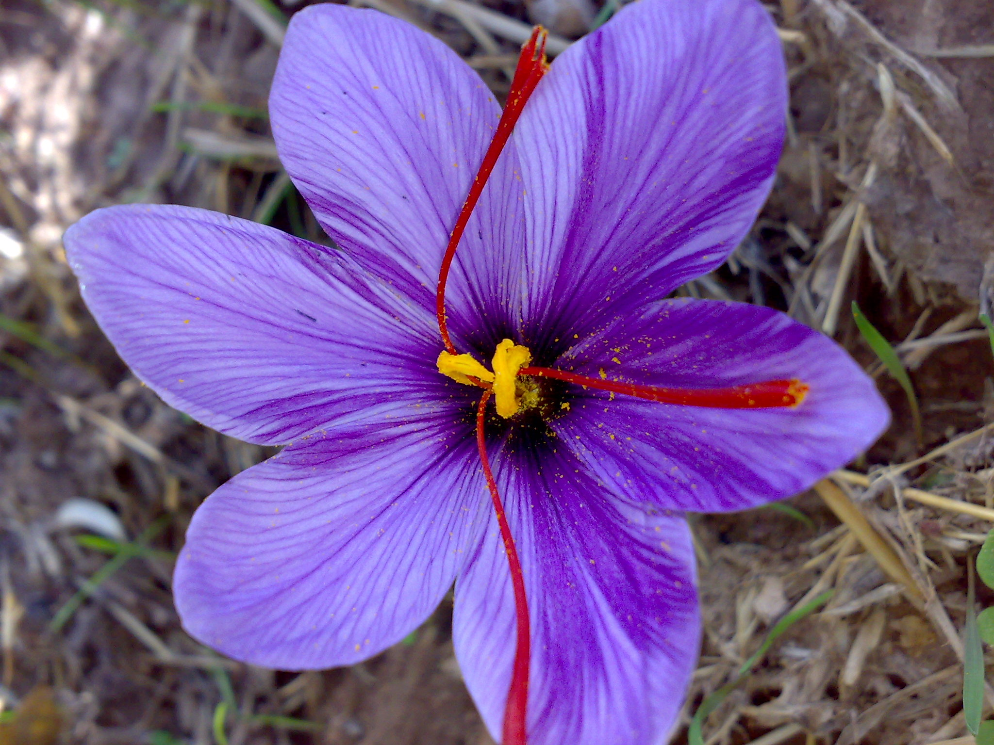 saffron in Savojbolagh County, tehran, iran. گیاه زعفران، روییده در شهرستان ساوجبلاغ